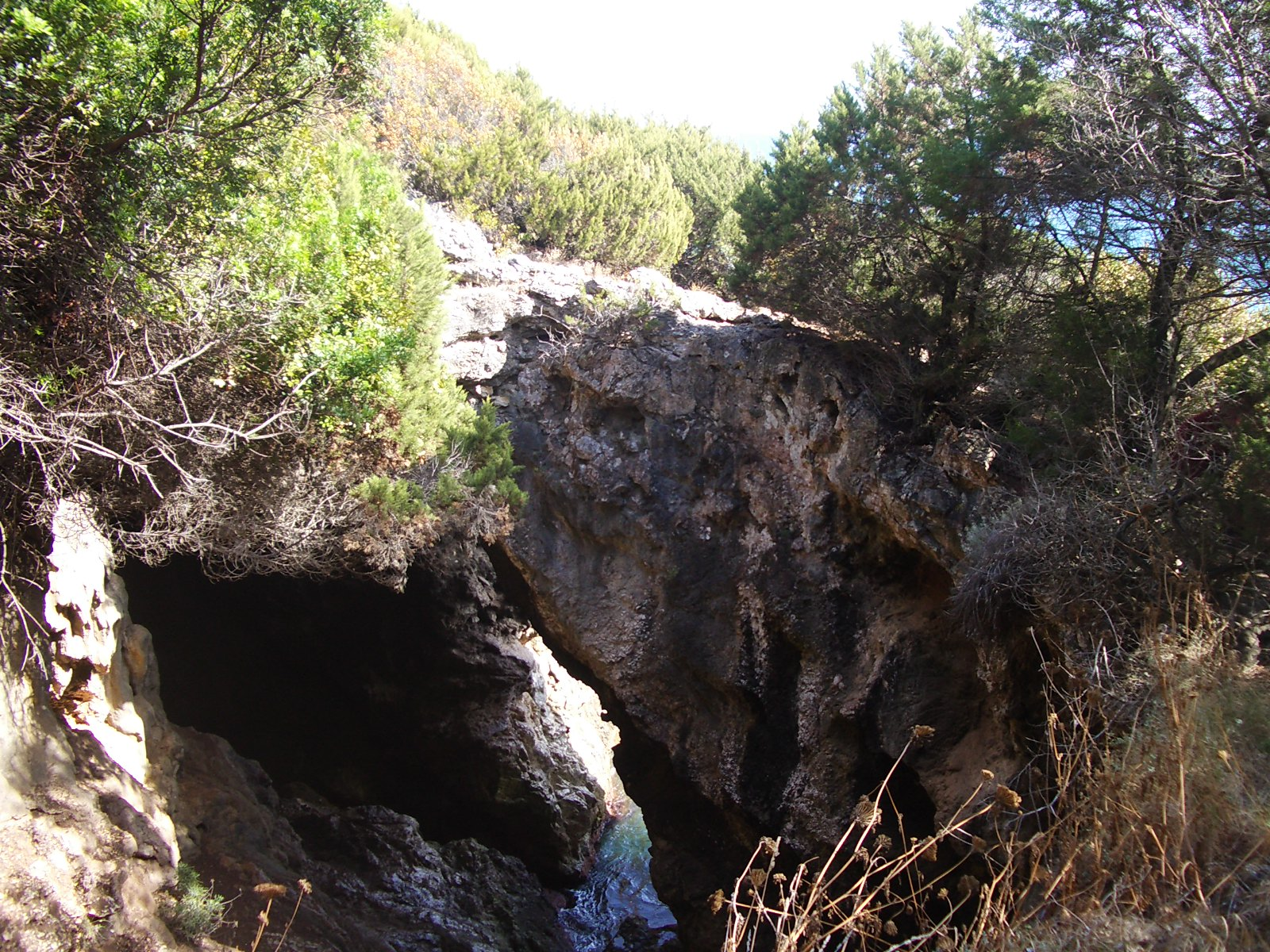 Grotta del Fossellone da terra